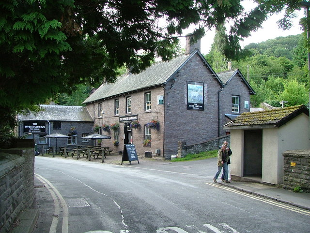 The White Hart Inn, Talybont on Usk Known locally as the Brecon Bunkhouse Hostel